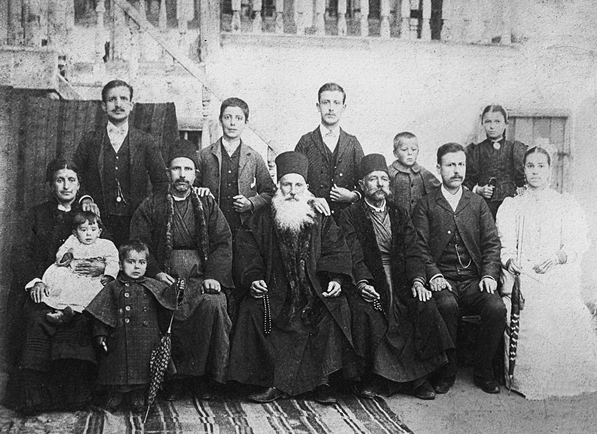 priest Naum (Dundo) family from Prilep, Macedonia